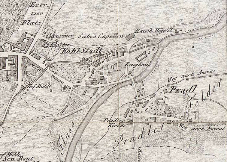 Map of Imperial and Royal Provincial Capital Innsbruck and surroundings: detail map – Pradl